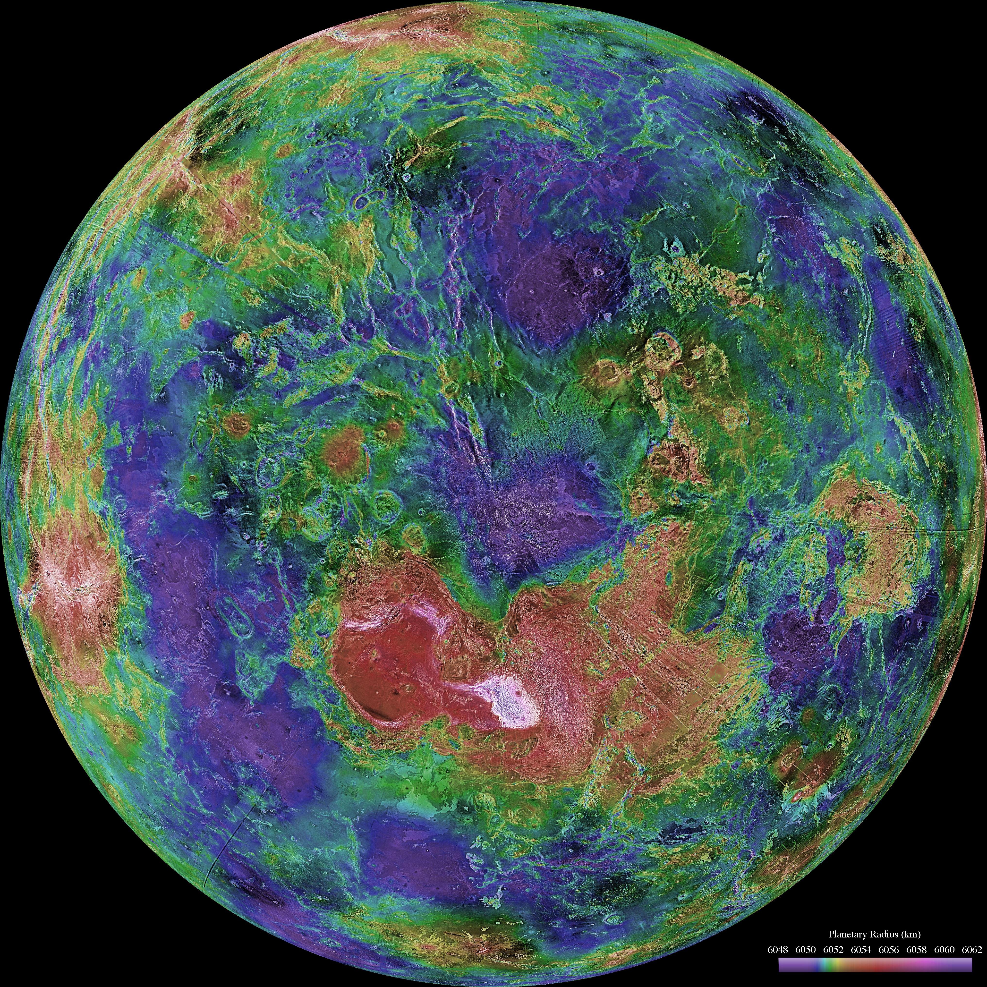 Hemispheric View of Venus Centered at the North Pole Original Caption Released with Image: The hemispheric view of Venus, as revealed by more than a decade of radar investigations culminating in the 1990-1994 Magellan mission, is centered on the North Pole. The Magellan spacecraft imaged more than 98% of Venus at a resolution of about 100 meters; the effective resolution of this image is about 3 km. A mosaic of the Magellan images (most with illumination from the west) forms the image base. Gaps in the Magellan coverage were filled with images from the Earth-based Arecibo radar in a region centered roughly on 0 degree latitude and longitude, and with a neutral tone elsewhere (primarily near the south pole). The composite image was processed to improve contrast and to emphasize small features, and was color-coded to represent elevation. Gaps in the elevation data from the Magellan radar altimeter were filled with altimetry from the Venera spacecraft and the U.S. Pioneer Venus missions. An orthographic projection was used, simulating a distant view of one hemisphere of the planet. The Magellan mission was managed for NASA by Jet Propulsion Laboratory (JPL), Pasadena, CA. Data processed by JPL, the Massachusetts Institute of Technology, Cambridge, MA, and the U.S. Geological Survey, Flagstaff, AZ.